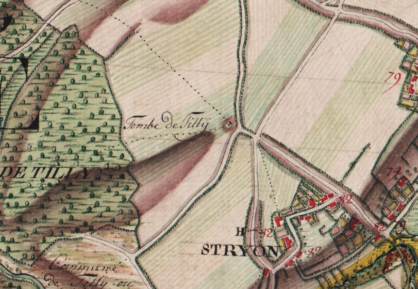 The place shown in the map is not the tomb of Johann Tserclaes, Count of Tilly who was buried in Altötting.